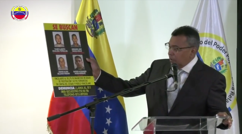 Minister Reverol holding a Wanted posted for people the government implicates in an assassination plot on President Maduro in August 2018